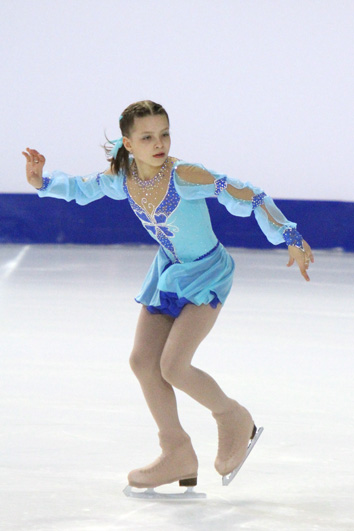 2010 World Junior Figure Skating Championships - Polina Agafonova